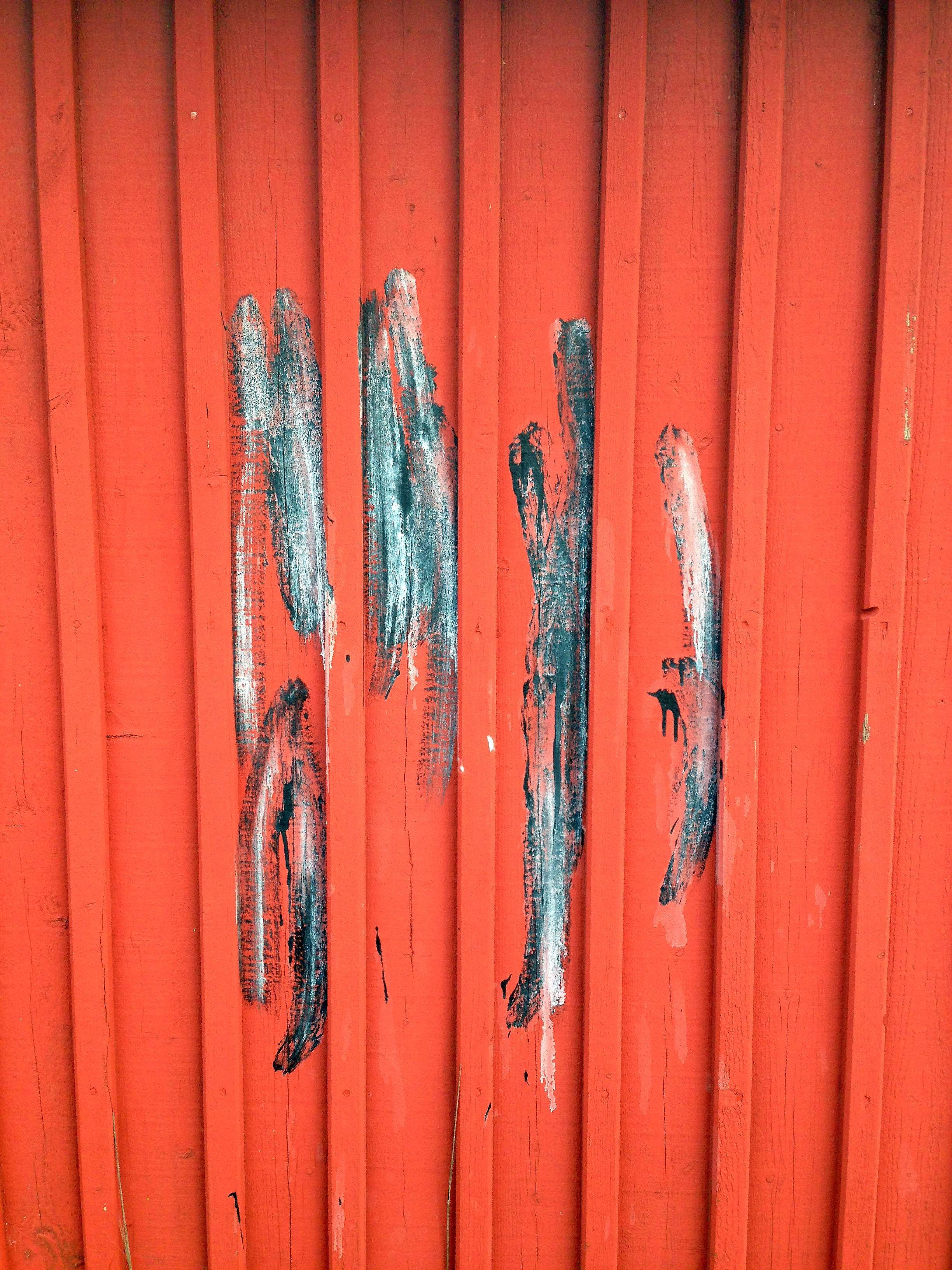 Vandalism on a red wall at Brännö, Göteborg, 2013